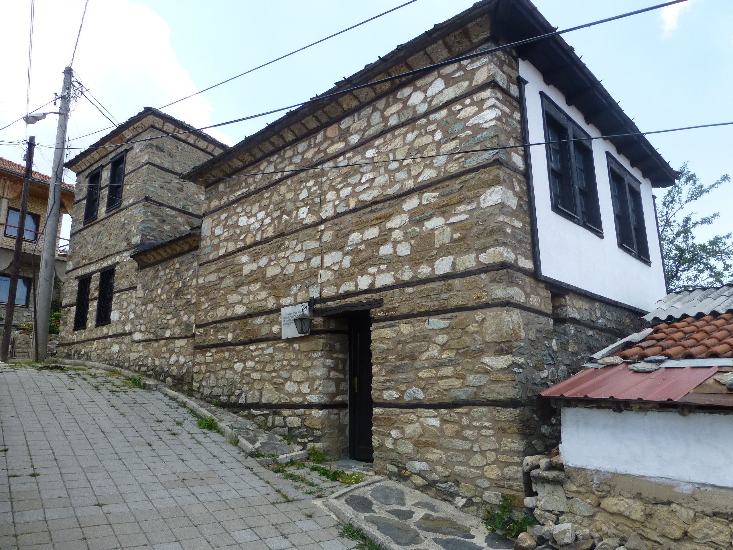 Town of Kruševo